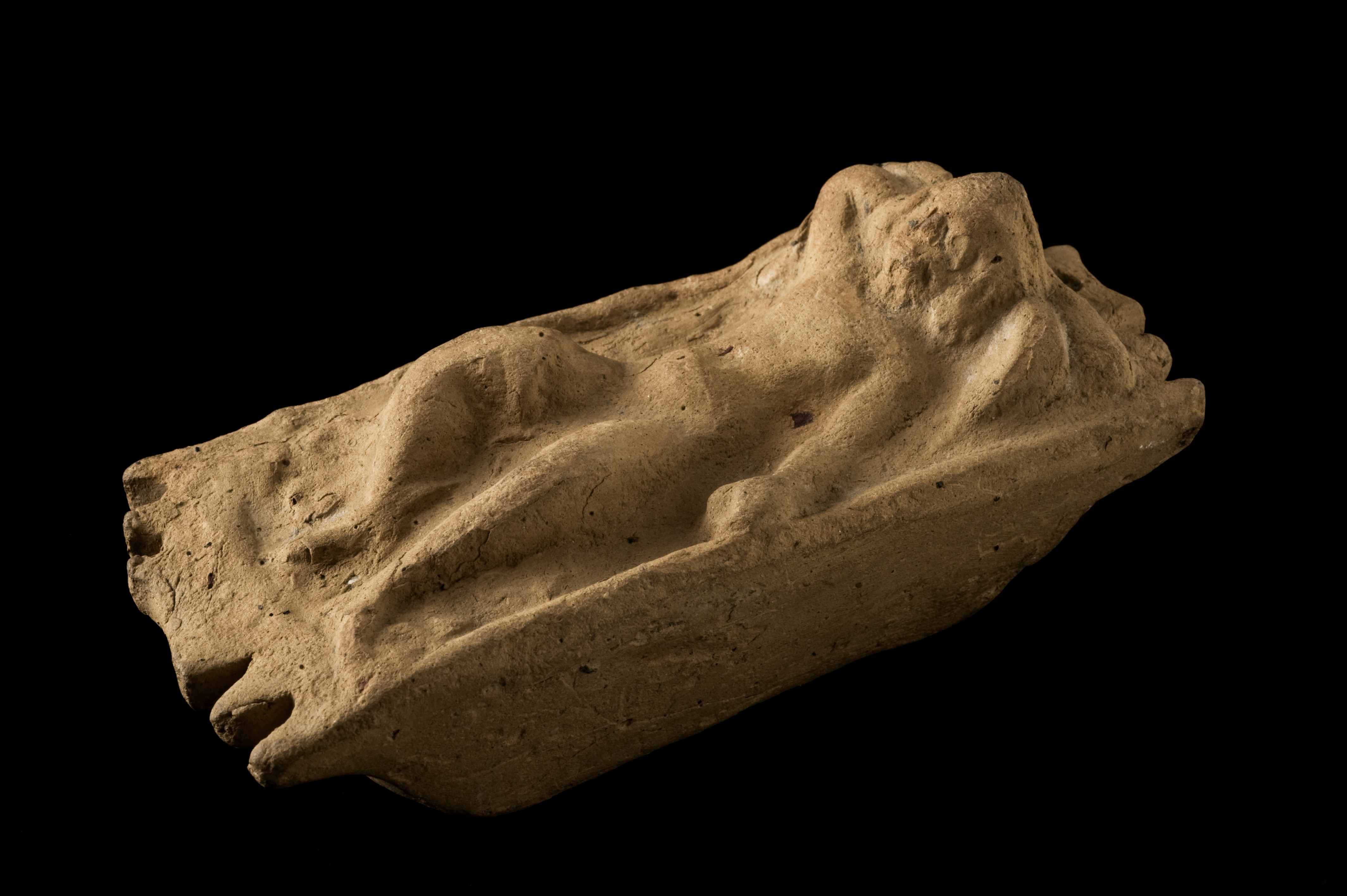 Votive offerings were given to the gods either in the hope of a cure or as thanks for one and were made in the shape of the afflicted body part. This votive offering shows a child lying in a cradle and is made from terracotta. Infant mortality was quite high and this offering may have been made for a sick child. On a more positive note, it may equally have been given as thanks for the safe delivery of a child. maker: Unknown maker Place made: Roman Republic and Empire Wellcome Images Keywords: votive offering; Mortality